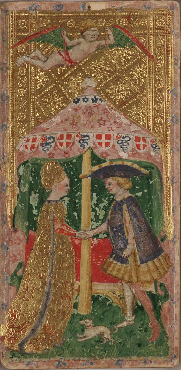 Lovers from the Visconti tarot deck